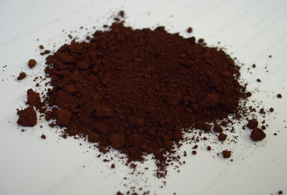 Iron oxide brown